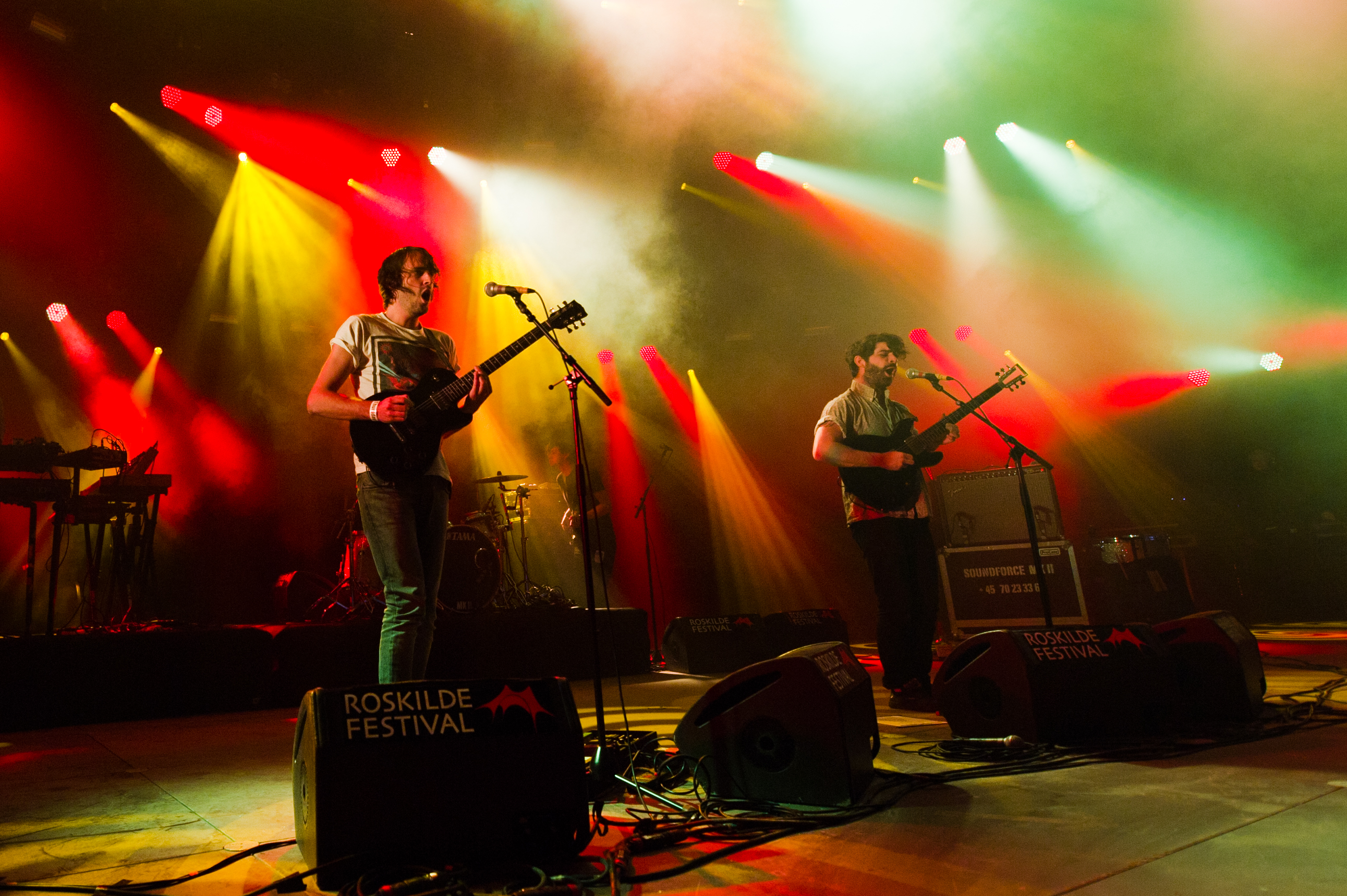 Foals performing at Roskilde Festival 2011, Arena stage - 30th of June 2011.